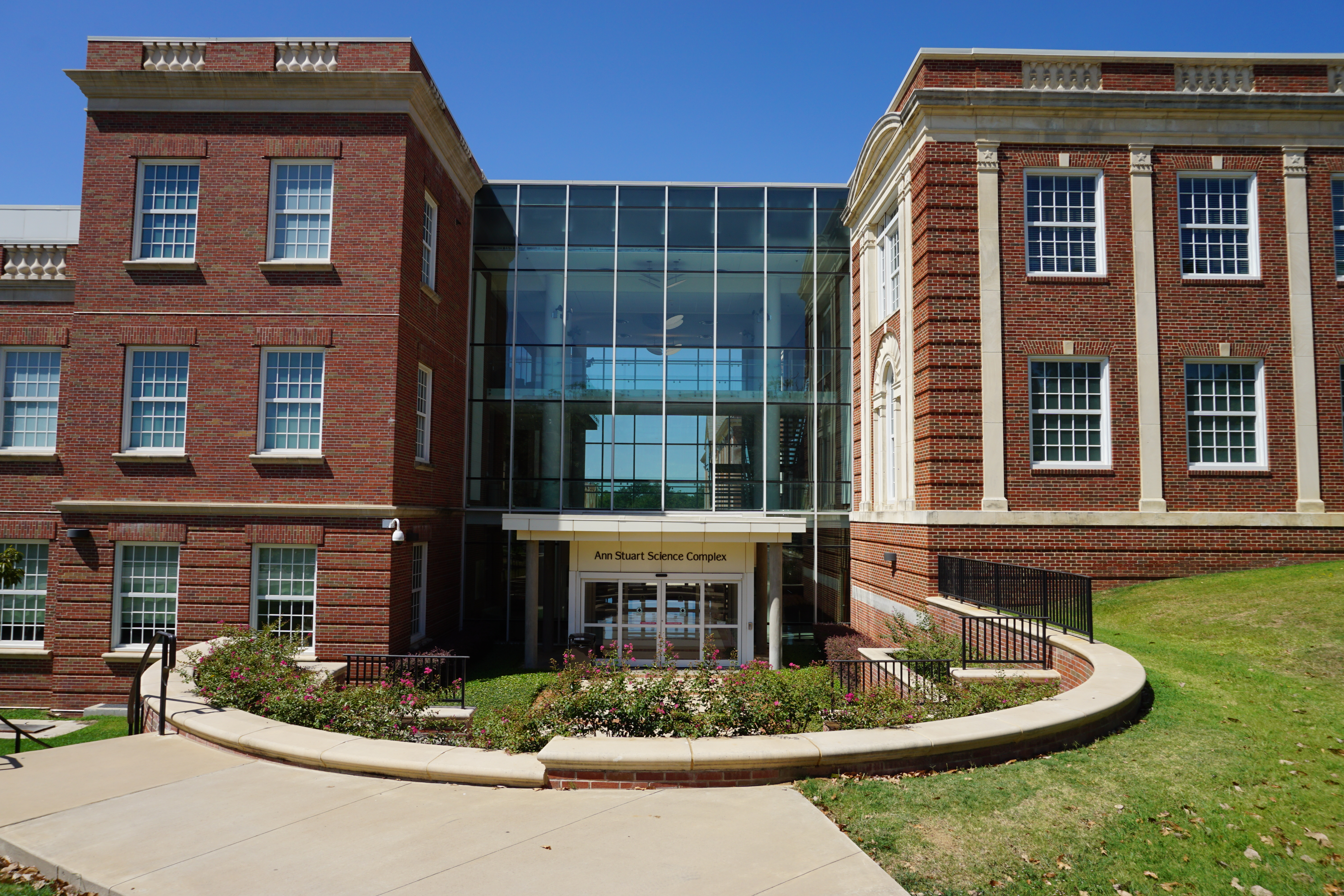 The Ann Stuart Science Complex on the campus of Texas Woman's University in Denton, Texas (United States).